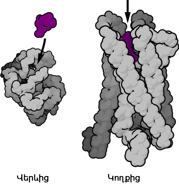 Based on coordinates for OPM 2iqo